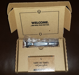 The initial welcome packet from Dollar Shave Club. Other information Cropped from my original.